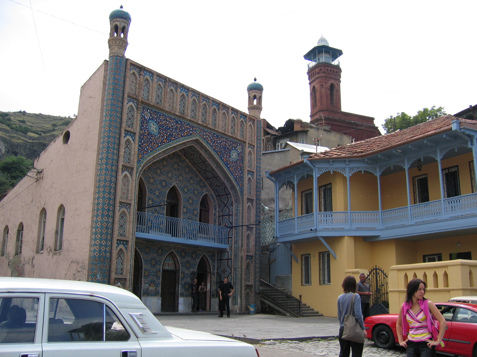 Orbeliani Baths, Abanotubani district, Tbilisi, Georgia.